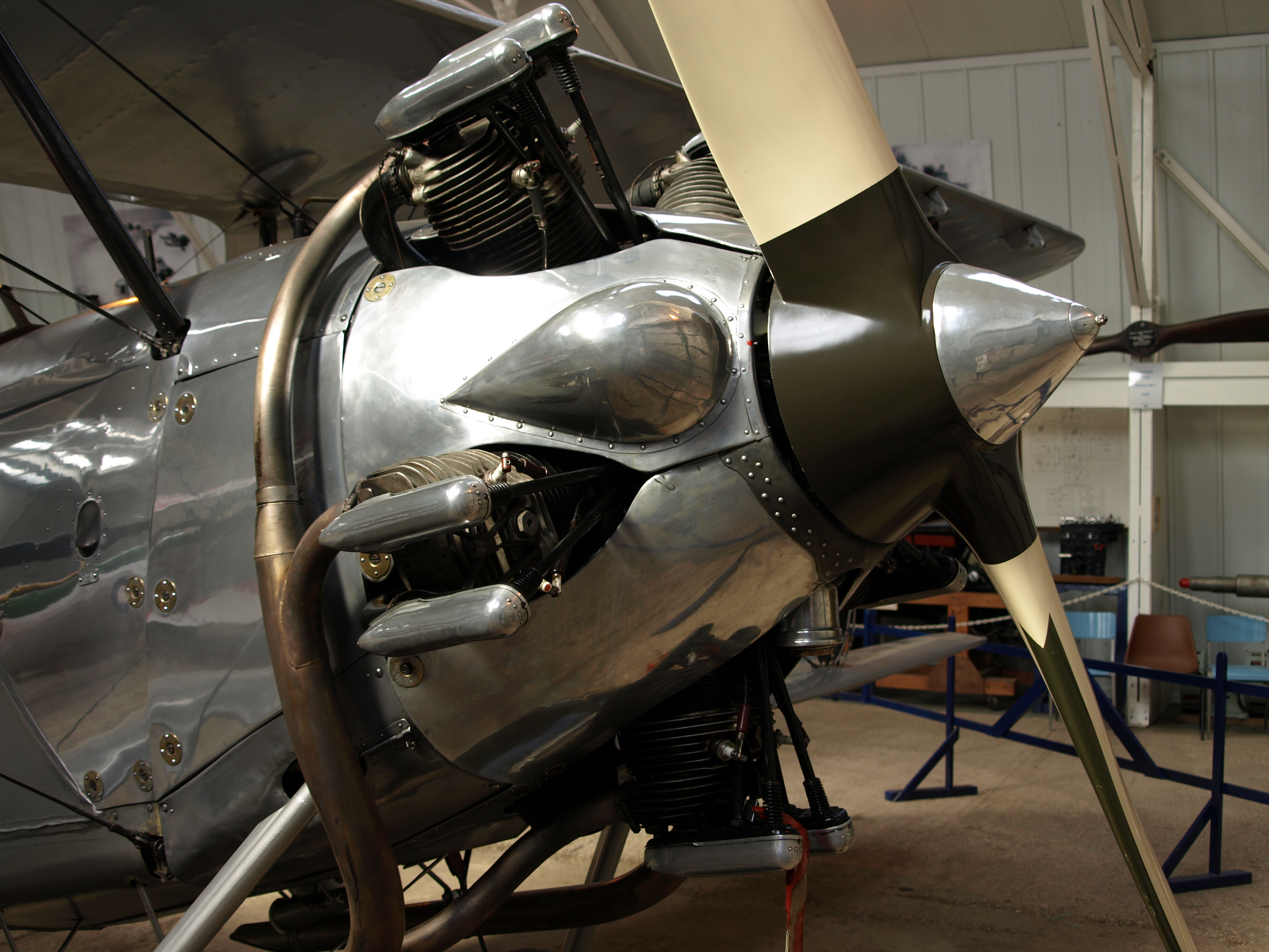 Armstrong Siddeley Mongoose aero engine